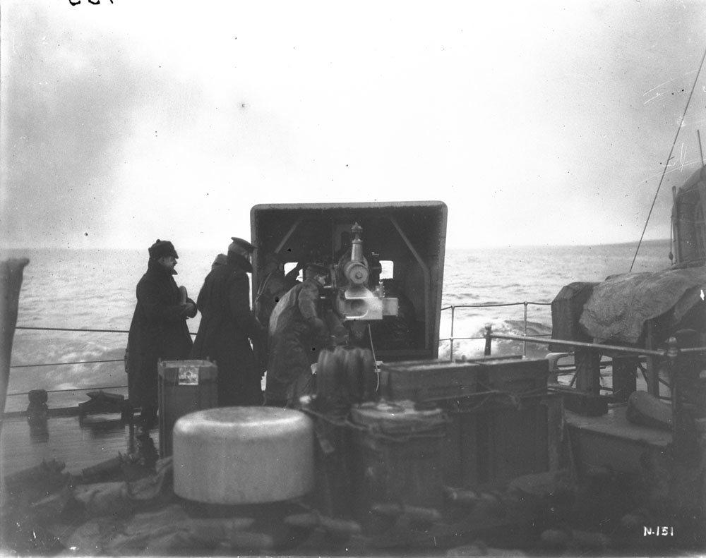 QF 4-inch Mk V gun and crew on British cruiser HMS Galatea. See also File:4-inch gun and crew on HMS Galatea Feb 1917 LAC 3398107.jpeg